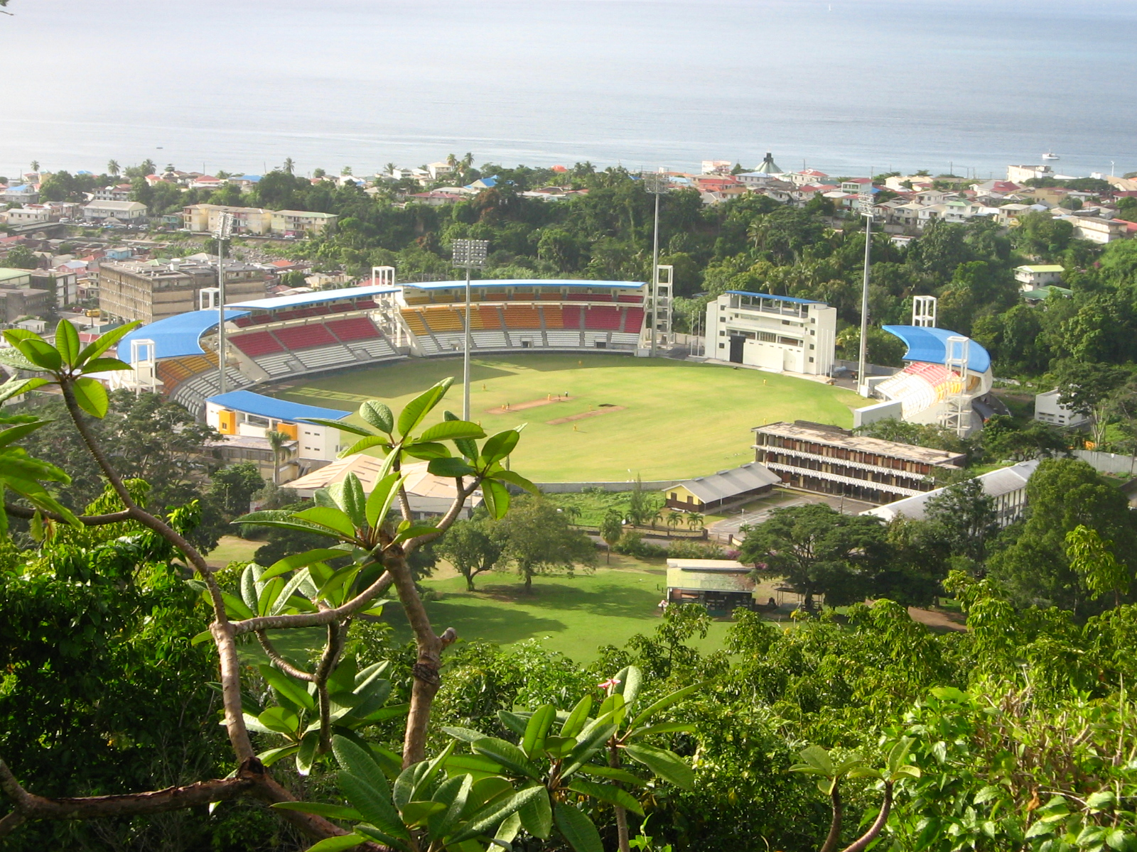 Picture of Windsor Park Stadium as taken from Morne Bruce.